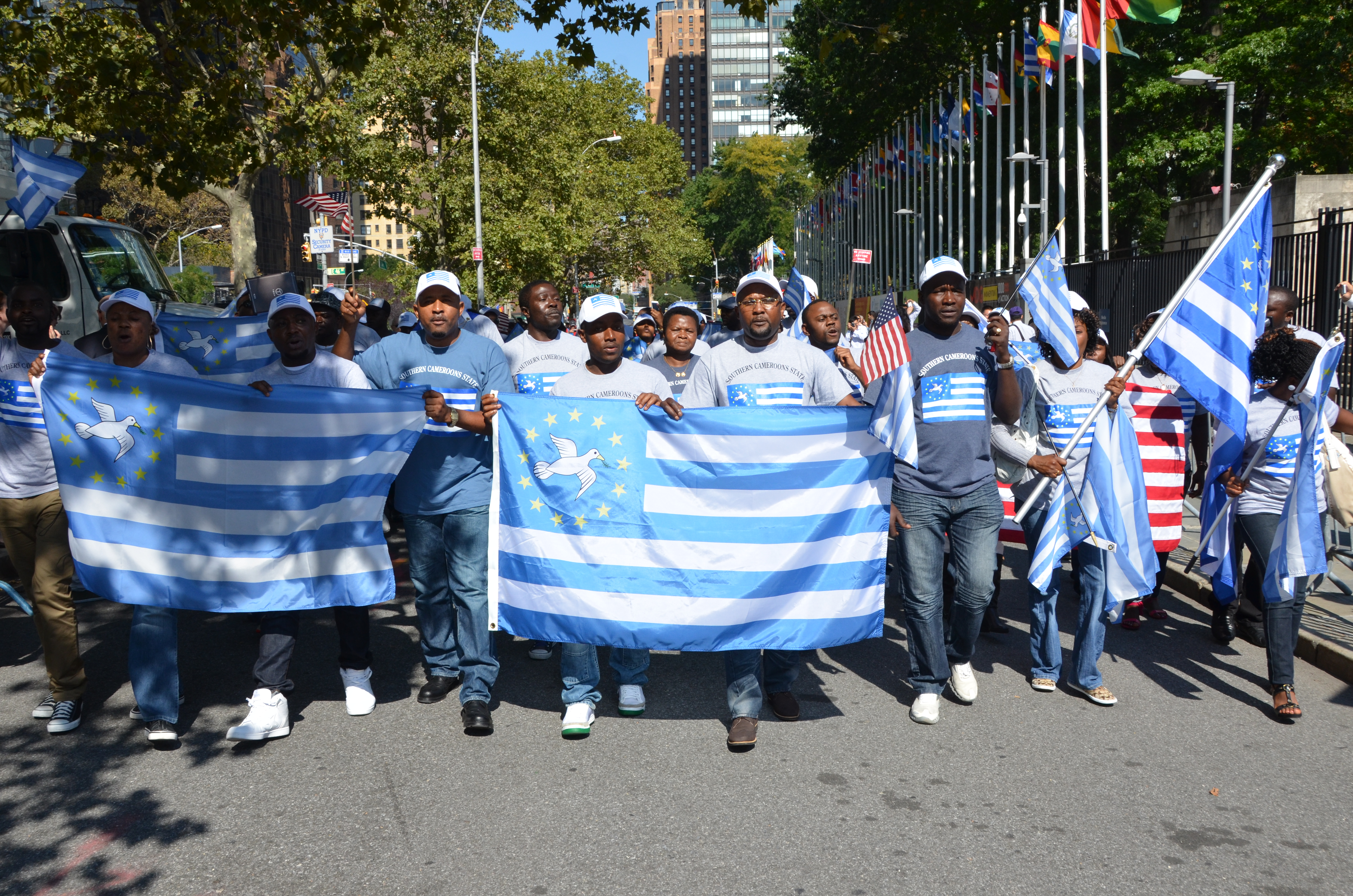 Southern Cameroons Nationalist Are Moving Forward.